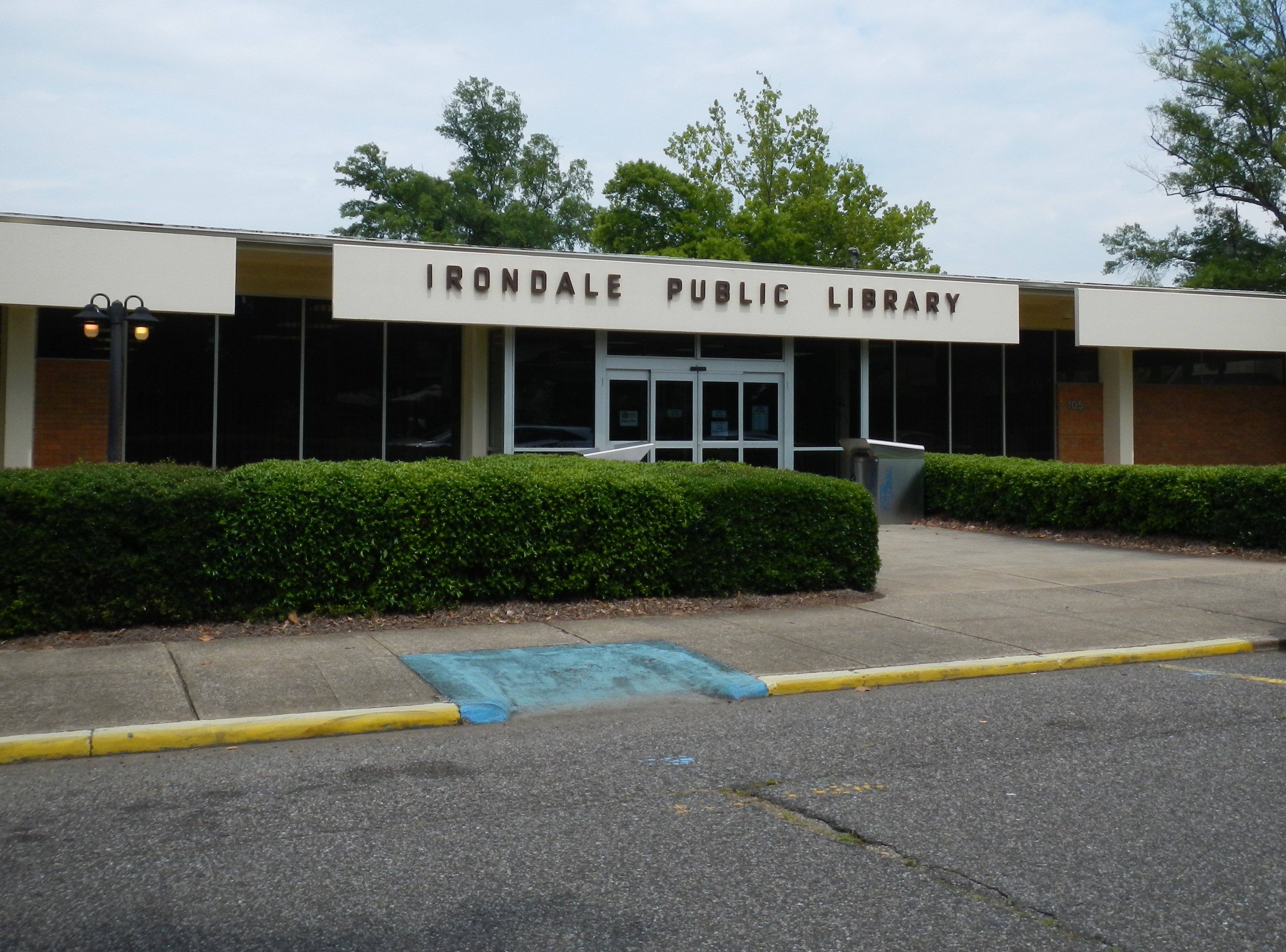 This is a photograph of the Irondale Public Library located in Irondale, Alabama.